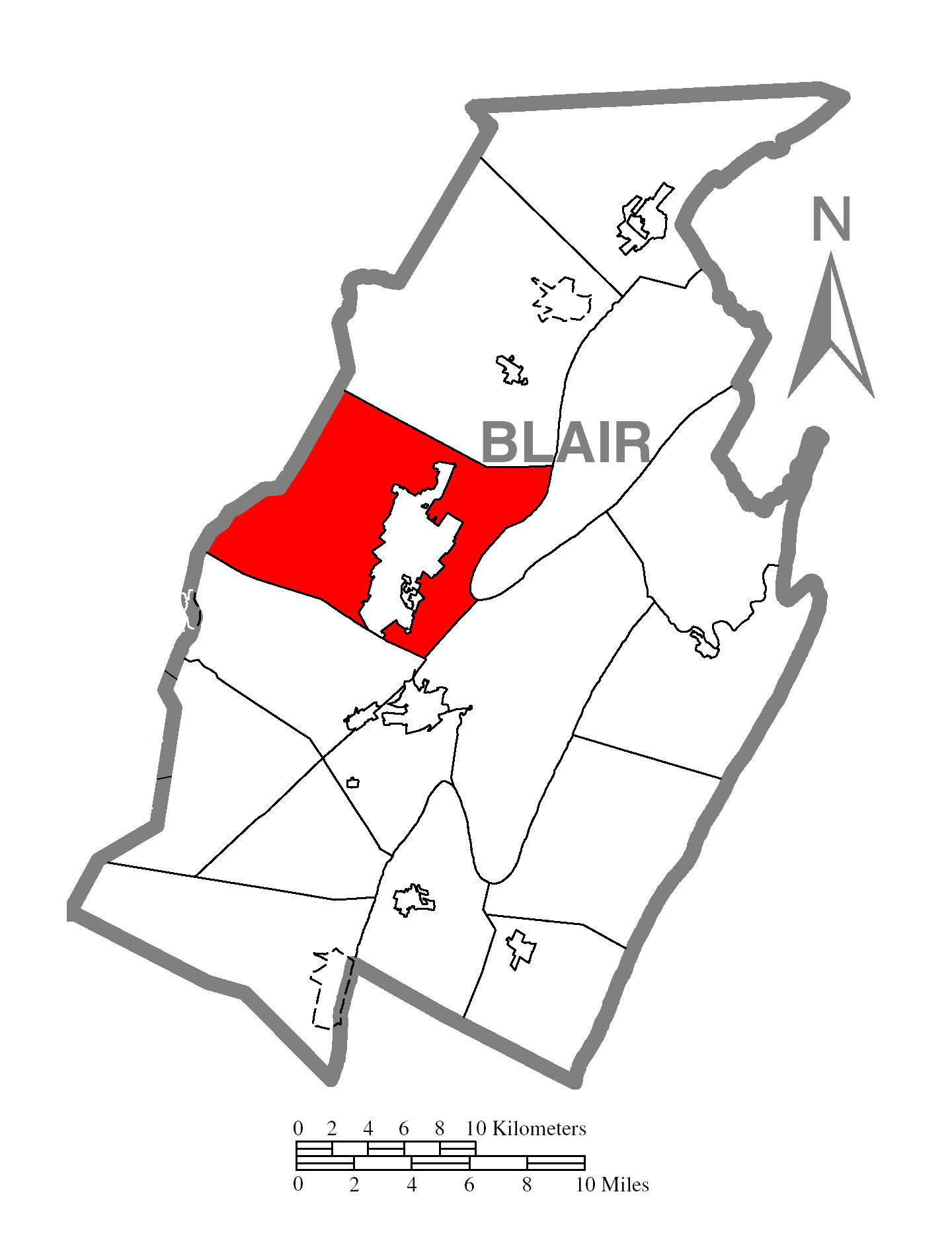 A map of Blair County showing Logan Township, Pennsylvania (alternate) highlighted on the map.